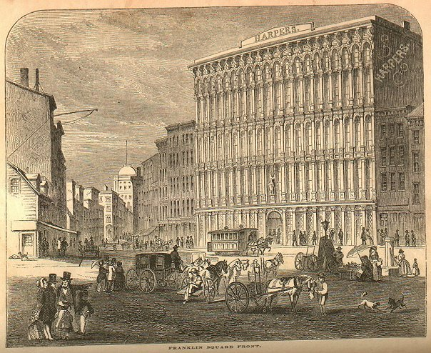 Harper brothers building